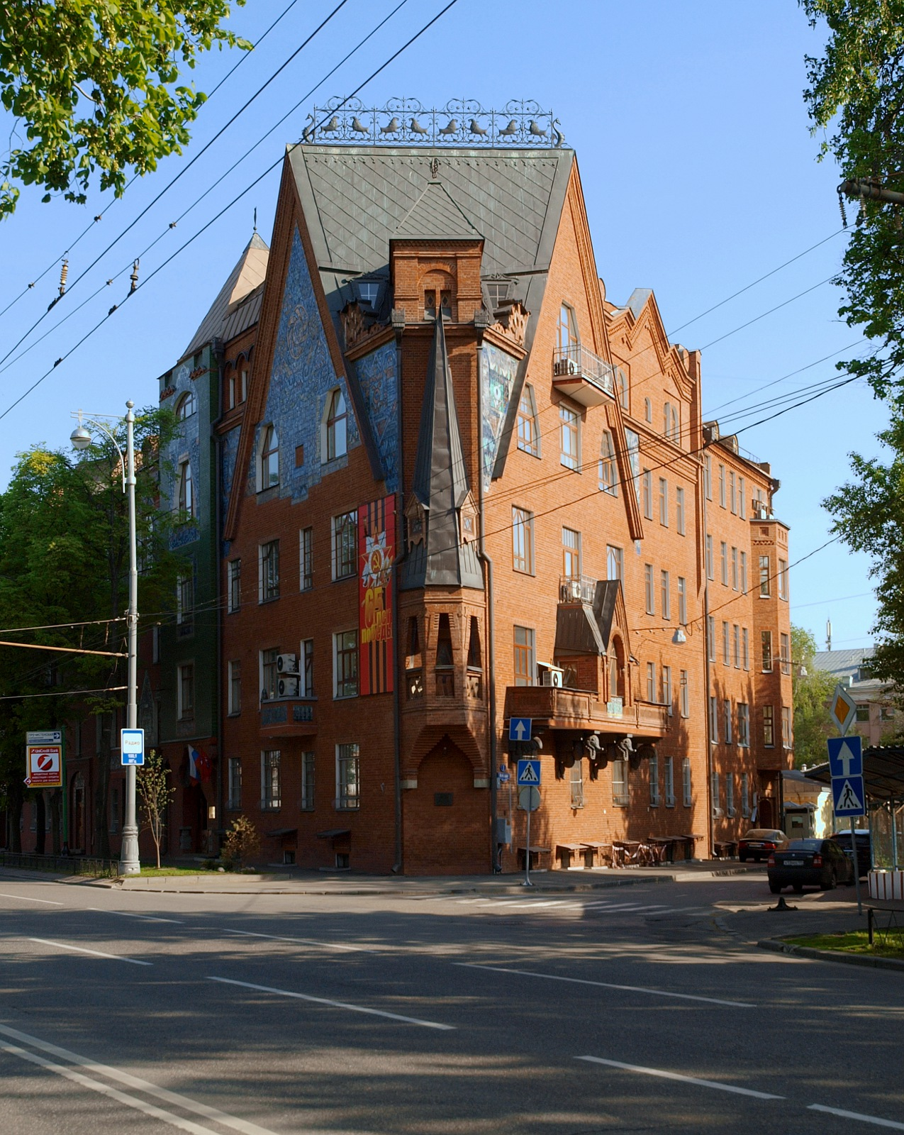 Pertsova House. Moscow, corner of Prechistenskaya Embankment, Soymonovsky Lane and Kursovoy Lane. View from Soymonovsky Lane. Built in 1905-1907. Architects: Nikolay Zhukov (planning) and Boris Schnaubert (execution); artistic concept: Sergey Malyutin.